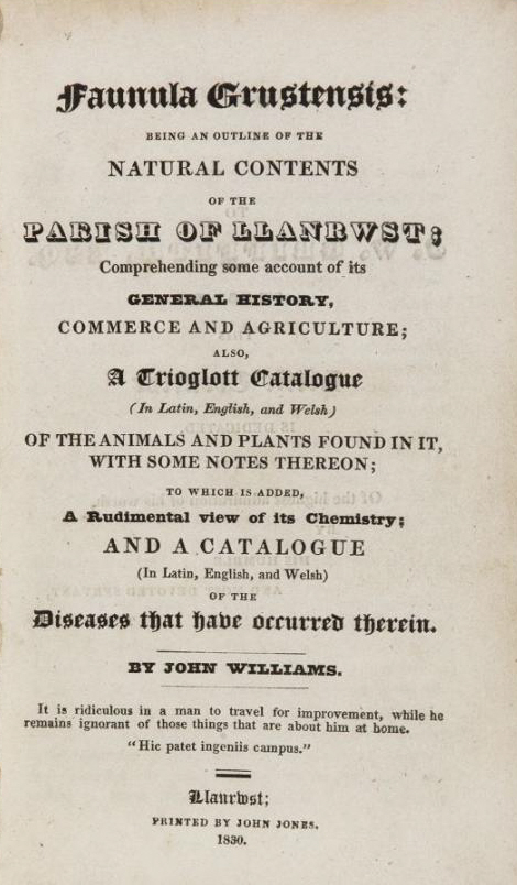 A photograph of the frontispiece of the book "Fanula Grustensis" by John Williams published in 1830